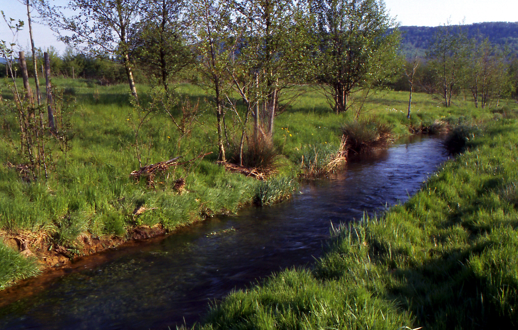 River "Haller" in Springe, Lower Saxony, Germany